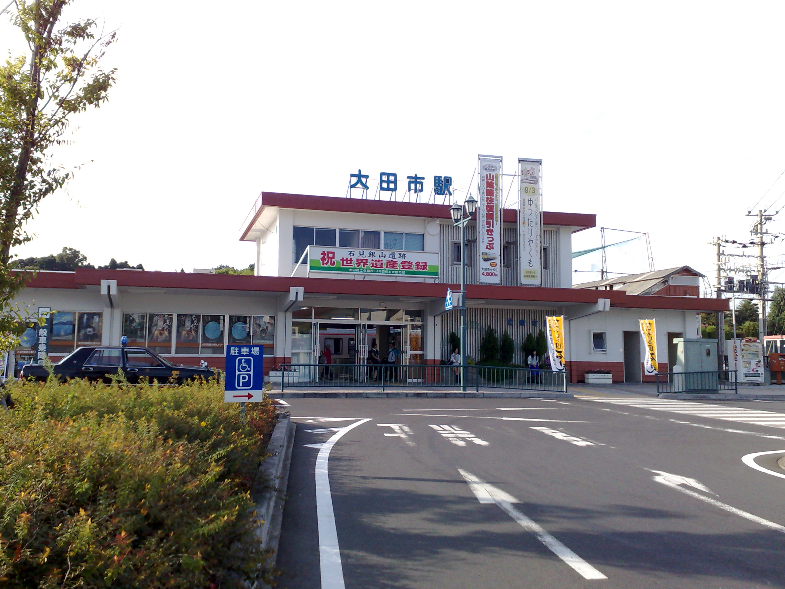 JR West Odashi Station